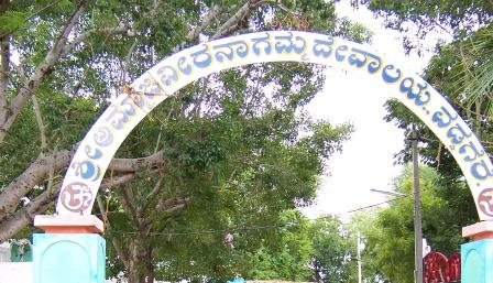 Vaddagere Veeranagamma Devaalaya